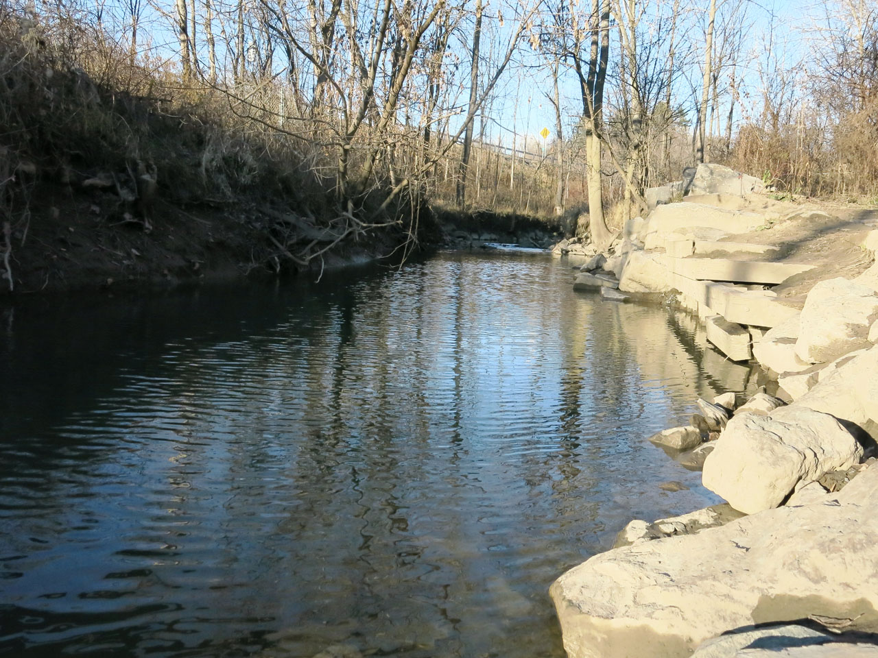 Krumkill Creek, a tributary of Normans Kill Creek near Albany, New York.